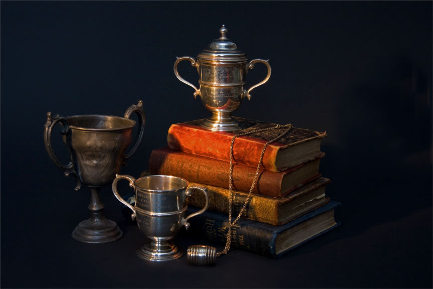 Hope this series not too dark?? Finally have a good RAW program and am getting caught up.